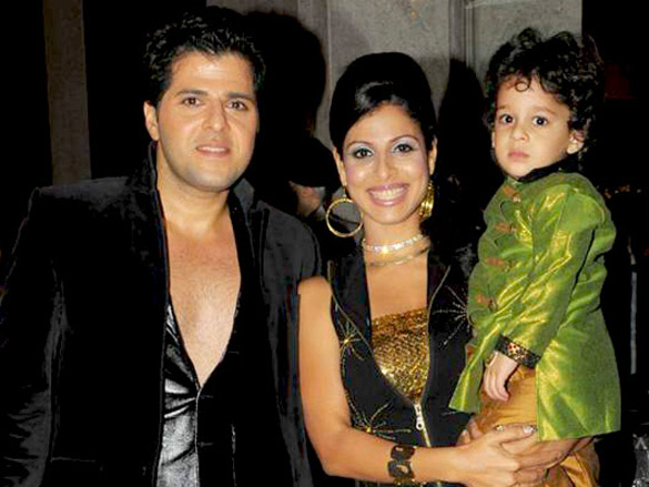 Tanaz bhaktiya family